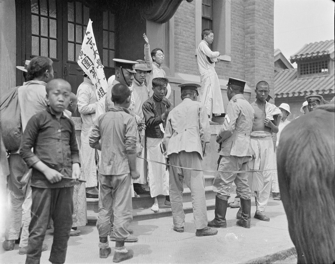 Photo from Peking, a social survey conducted under the auspices of the Princeton university center in China and the Peking Young men's Christian association (1921)